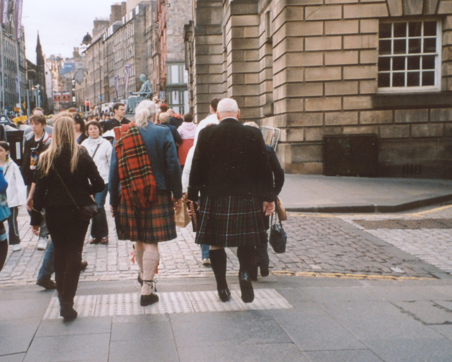 two scotmen wearing their kilts in Edinburgh